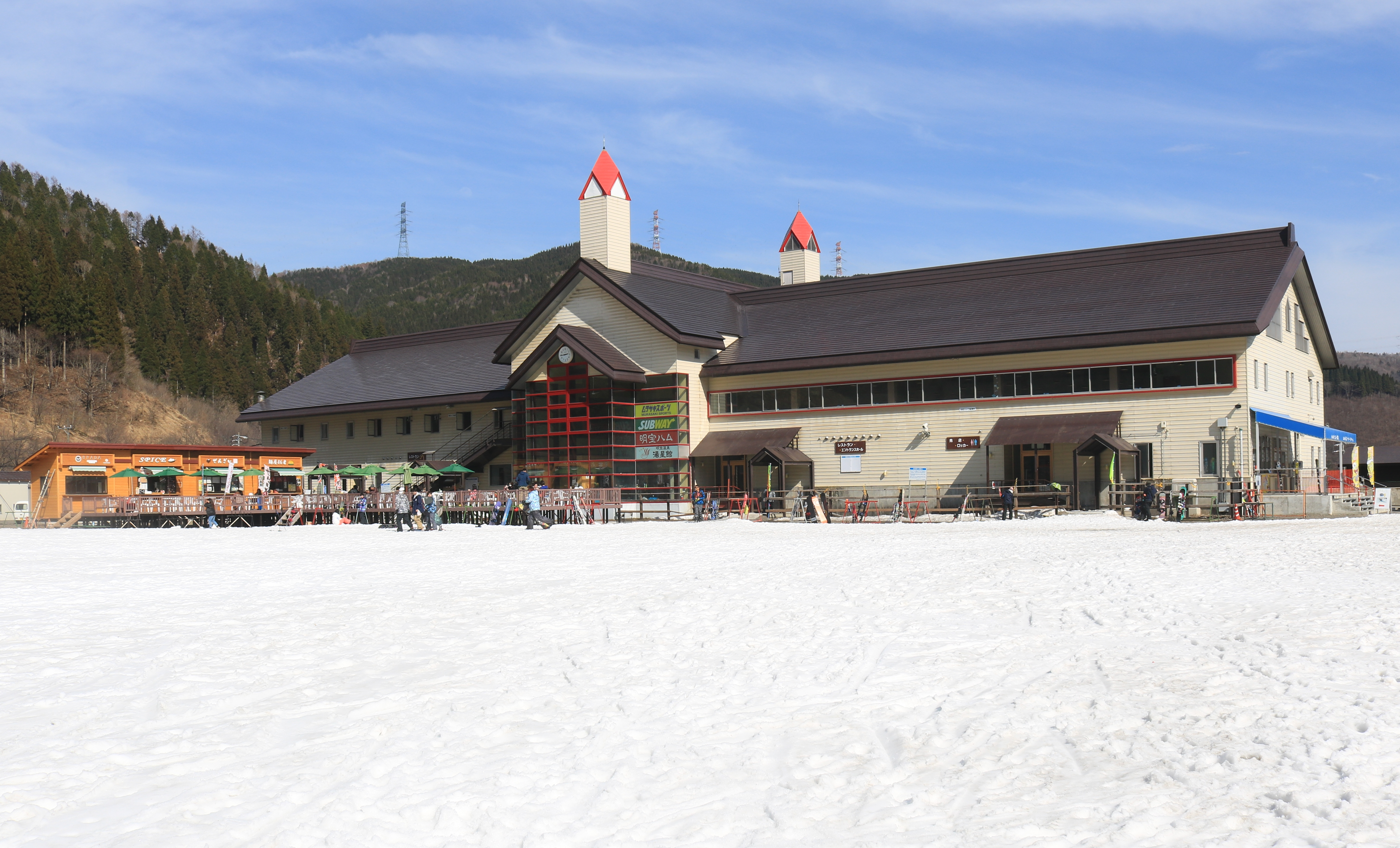 Meiho Snow Resort in Gujo, Gifu Prefecture, Japan.